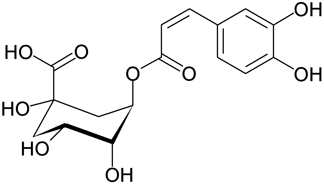 Chlorogenic acid